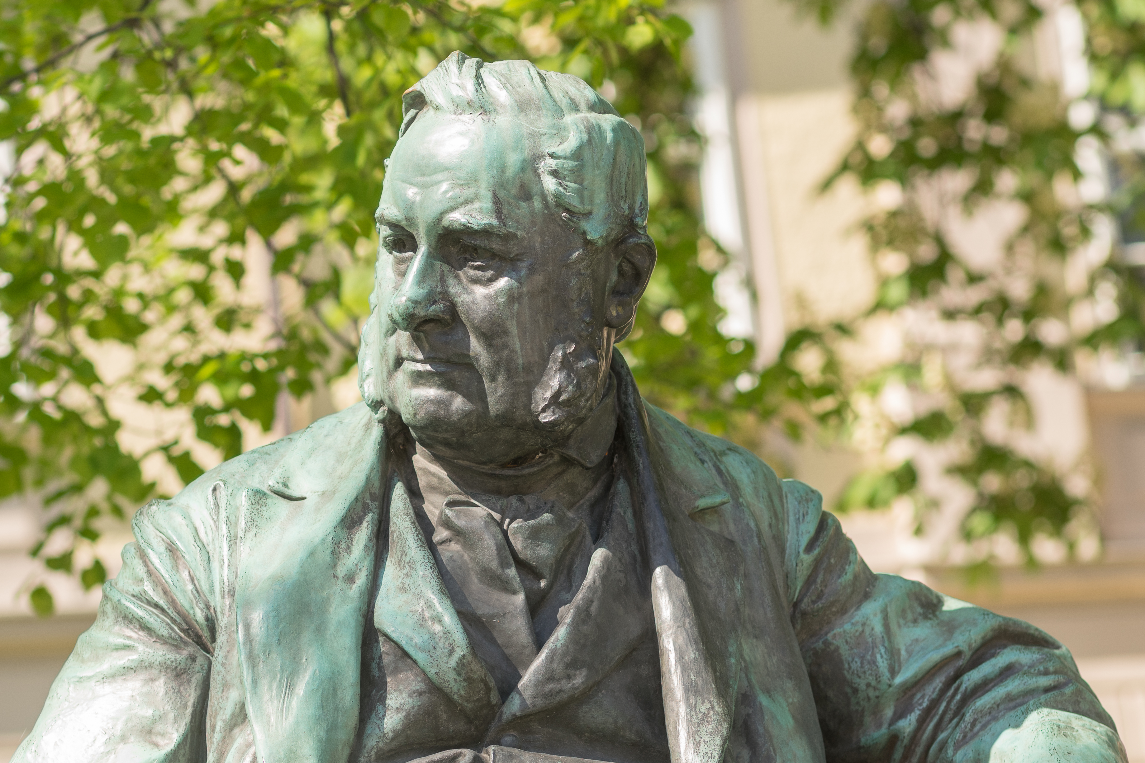 Adalbert Stifter. Stifterdenkmal in Linz, Austria.